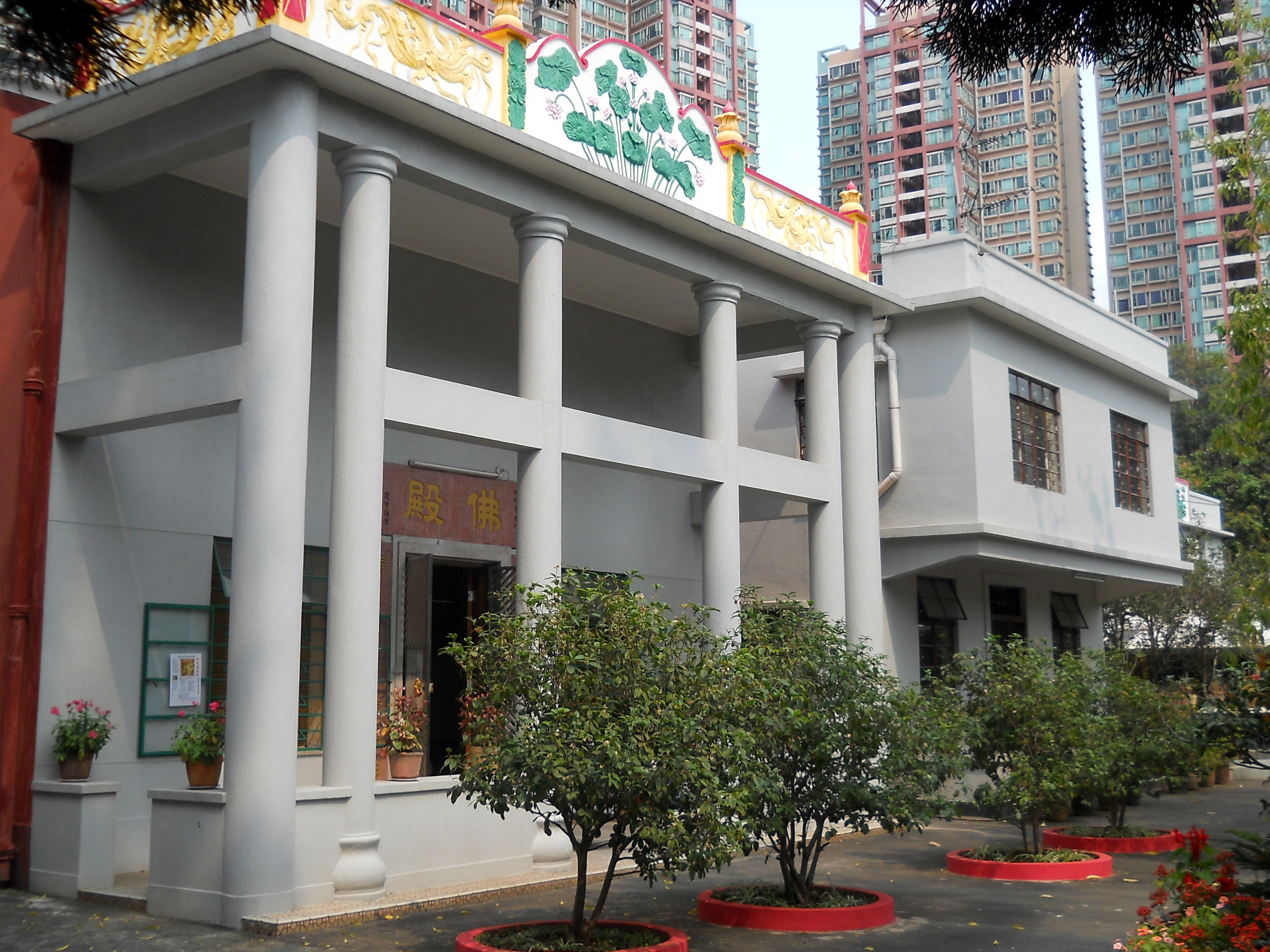 Fat Din (Buddha's Hall) of Ching Leung Fat Yuen, a Buddhist nunnery in Fu Tei, Tuen Mun District, Hong Kong. The Fat Din building was built in 1928. It is listed as a Grade III historic building.